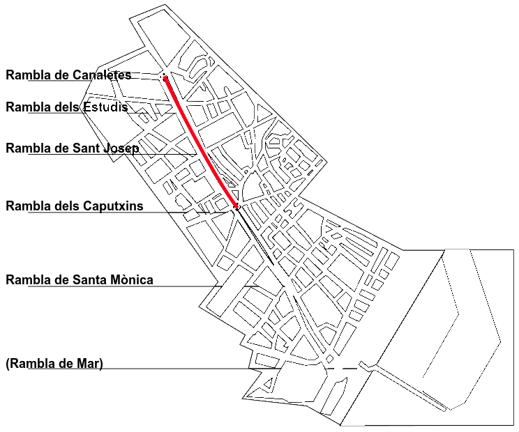 Terrorist attack in La Rambla, Barcelona, Spain